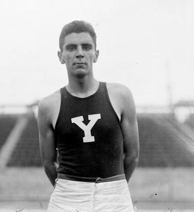 American athlete Ward McLanahan at the 1904 Olympic Games.